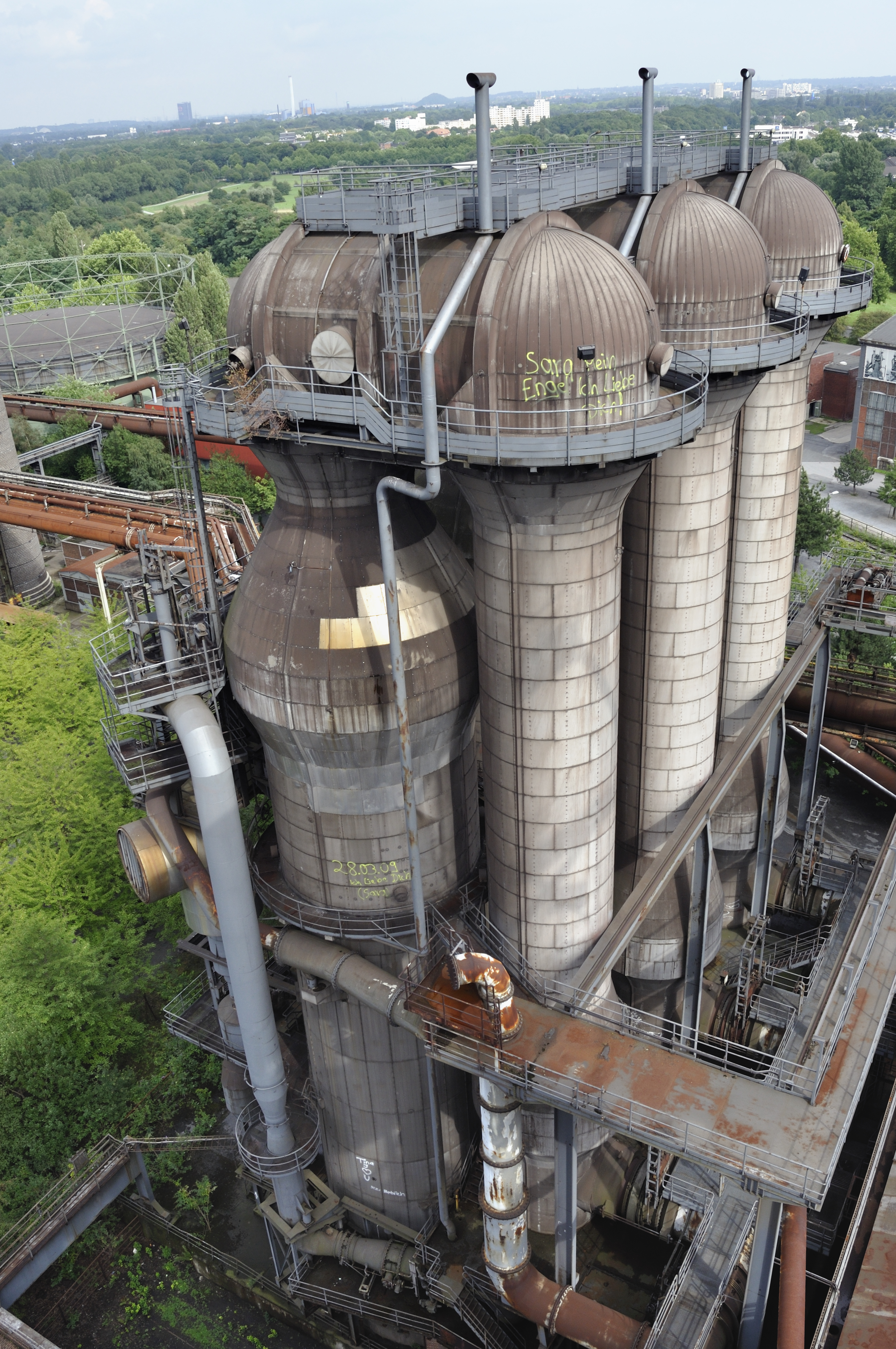 High performance cowper hot blast stove with outside lying combustion chamber.Picture taken in Duisburg while summer meetup.